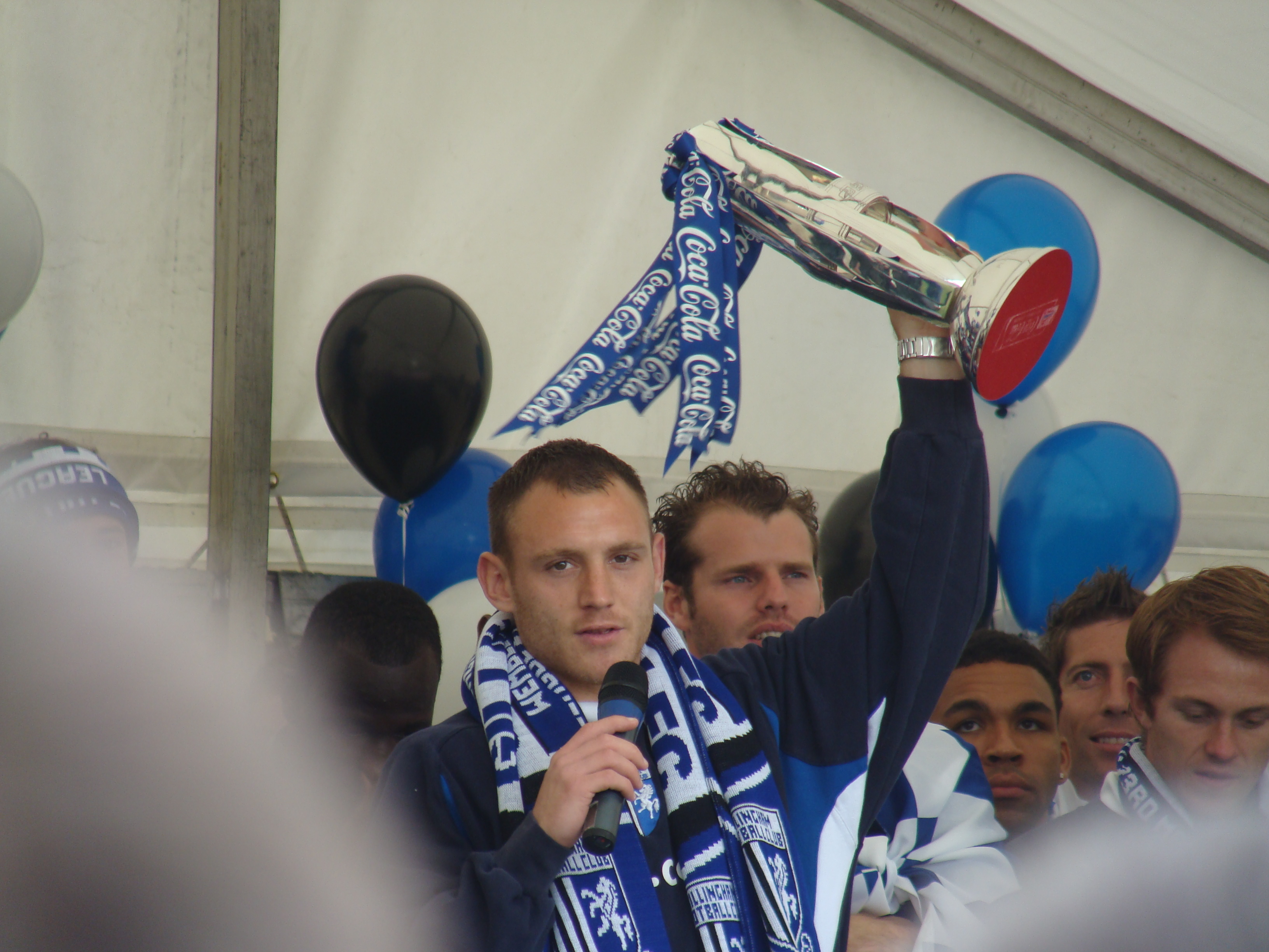 Uploader's own image